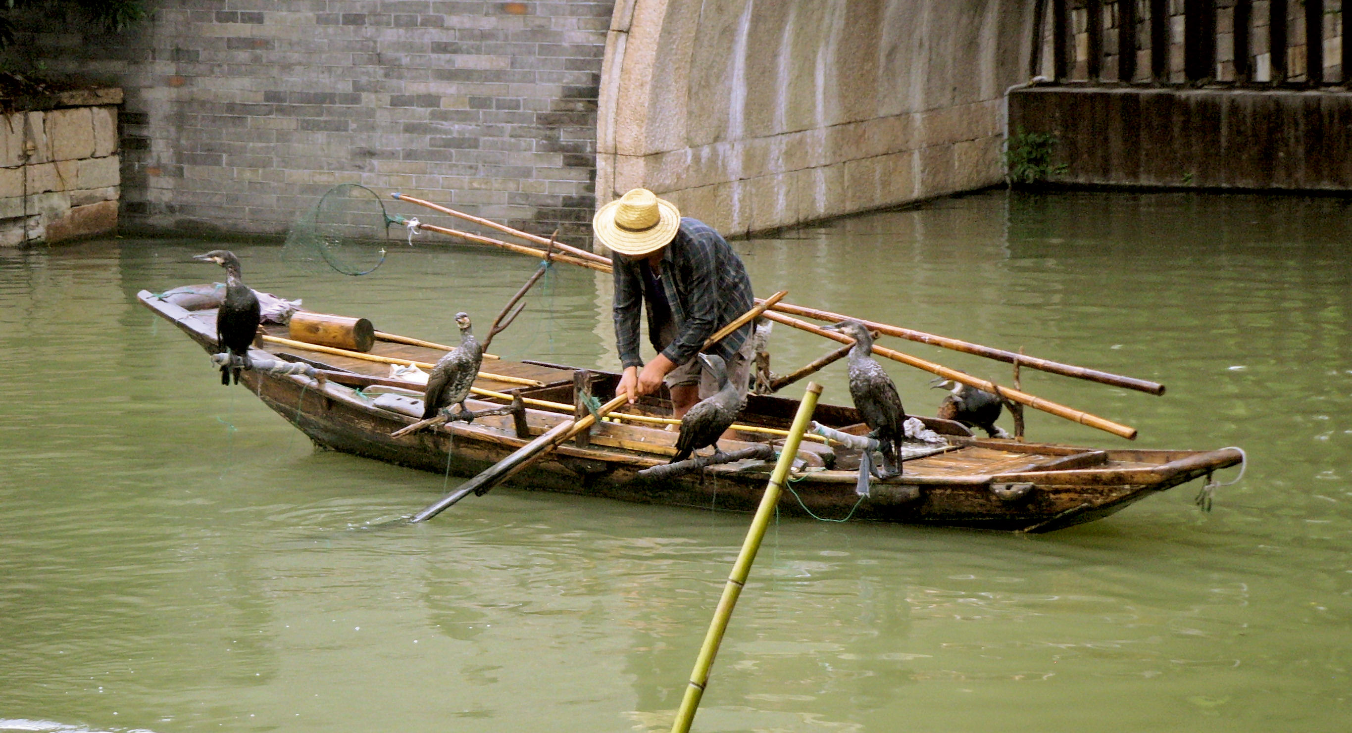 Wuzhen Xizha, Tongxiang, Zhejiang, P. R. of China: Trained cormorants